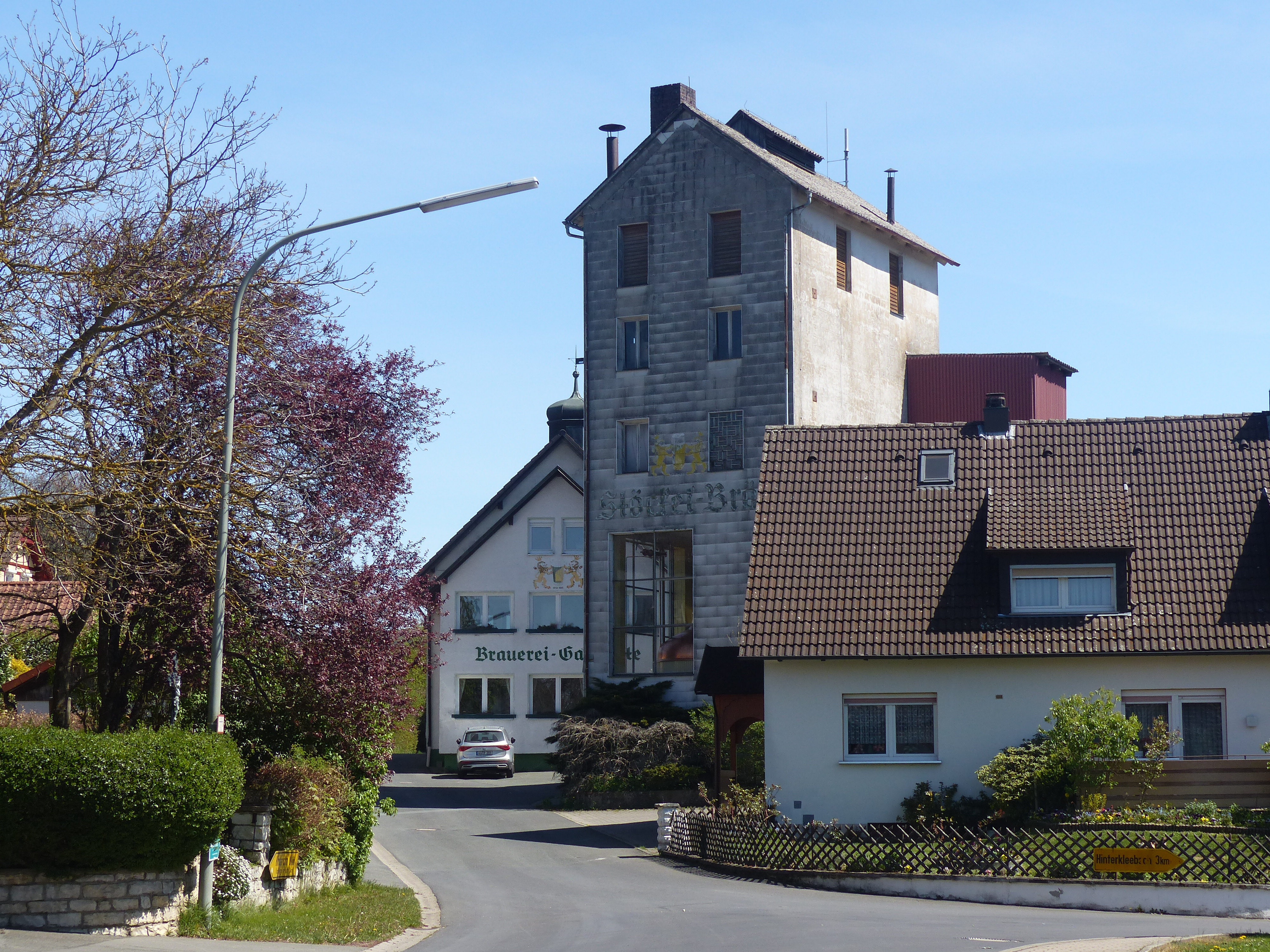 The village Hintergereuth, a district of the municipality of Ahorntal.